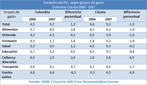 CPI of Cúcuta, Colombia [2006-2007]